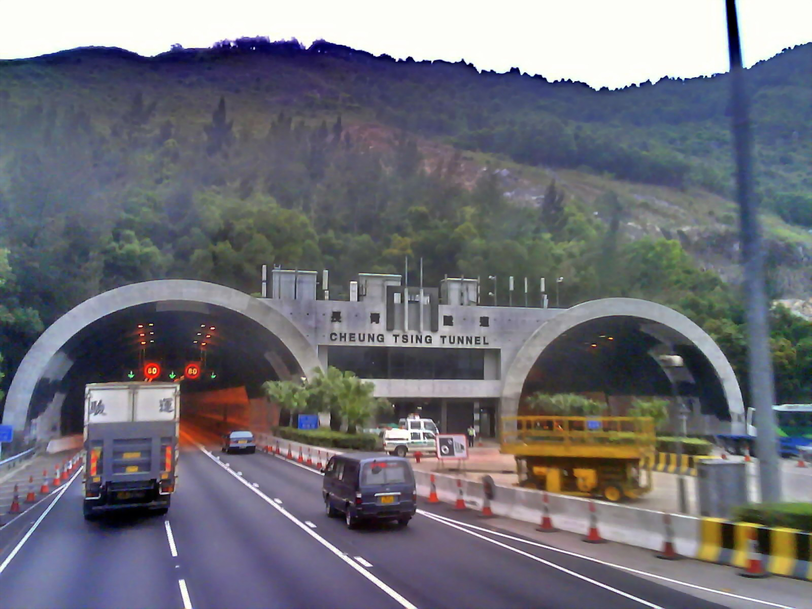 Cheung Tsing Tunnel, Sai Tso Wan Entrance, Tsing Yi Island, Hong Kong.